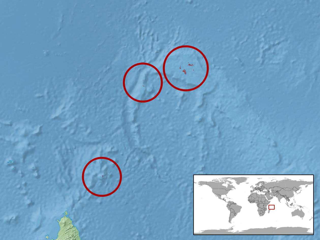 geographic distribution of Trachylepis seychellensis, syn. Trachylepis sechellensis